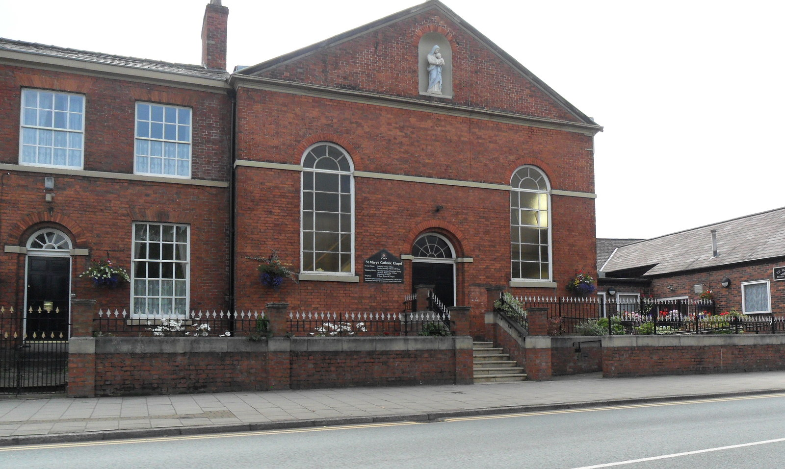 Roman Catholic church of St Mary (centre) and presbytery (left), West Road, Congleton, Cheshire, seen from the north